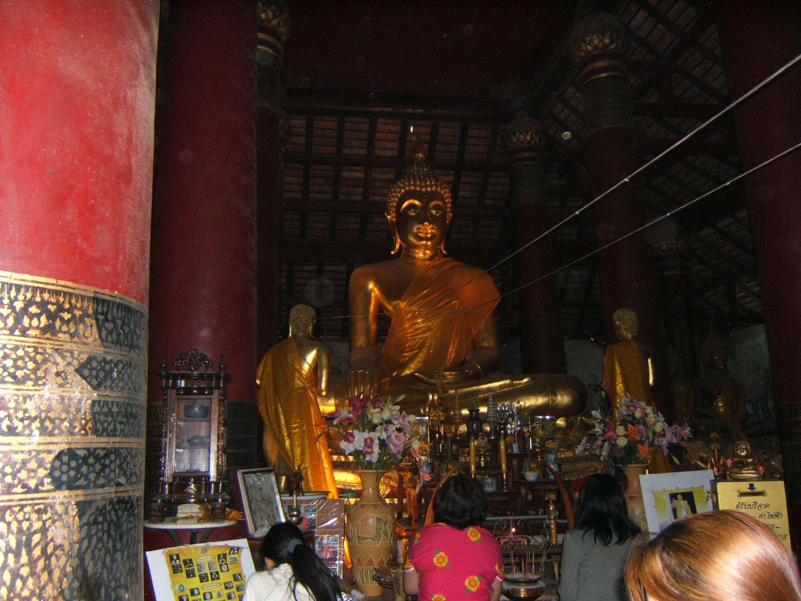 Buddha statue in Wat Ratchaburana, Phitsanulok, Thailand